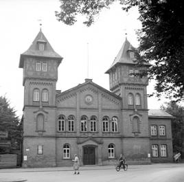 The Town Gymnasium at 30 Lindenstrasse, Luneburg, which was converted to a Court of Justice for the purpose of holding the trials, ten days before the trials started. Item Name: THE LIBERATION OF BERGEN-BELSEN CONCENTRATION CAMP: THE WAR CRIMES TRIAL OF FORMER BELSEN GUARDS, LUNEBURG, SEPTEMBER 1945 [Official photograph] WAR OFFICE SECOND WORLD WAR OFFICIAL COLLECTION